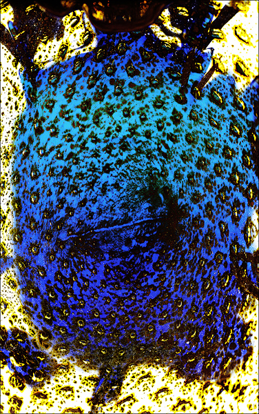 Oscar, 2010, cibachrome photograph, 77 x 48 inches